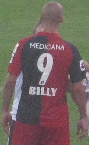 Billy Mehmet, Turkish footballer